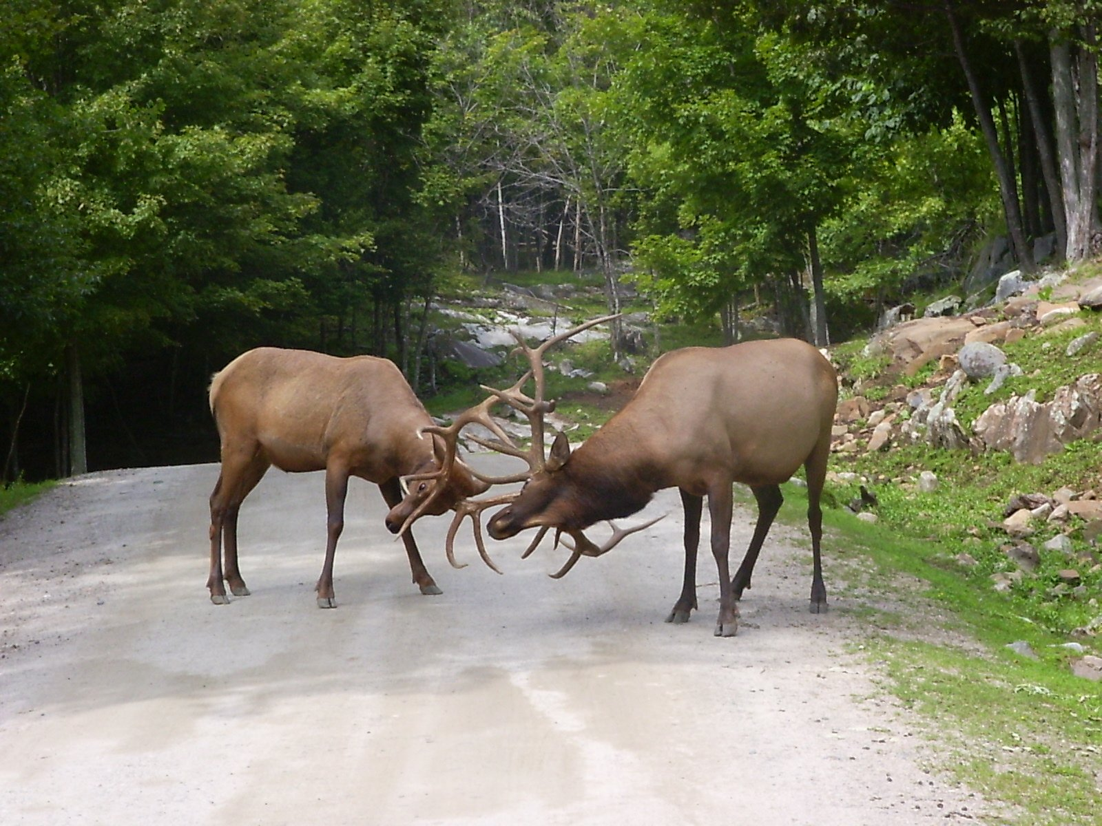 Two wapitis, in duel.